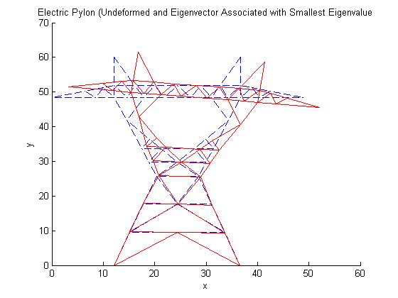 Plot of the undeformed shape of the electric pylon, as well as the smallest eigenvector. For EML 4500 HW 6 Fall 2008.